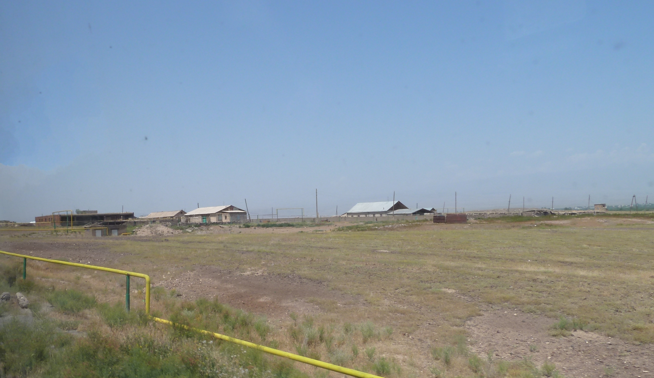 Arevadasht village, Aragatsotn, Armenia